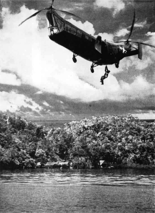 A U.S. Navy Piasecki HRP-1 picking up a pilot in 1949. The caption explains this as the rescue of a "Lt. Wink van Ripple" from a "Bongobongo" island, after the pilot had spent four years with natives. Interestingly he still wears his flight suit, and neither a Lt. van Ripple nor a Bongobongo island could be identified. There is just a Bongo Island in the Philippines (off the eastern coast of Cebu).